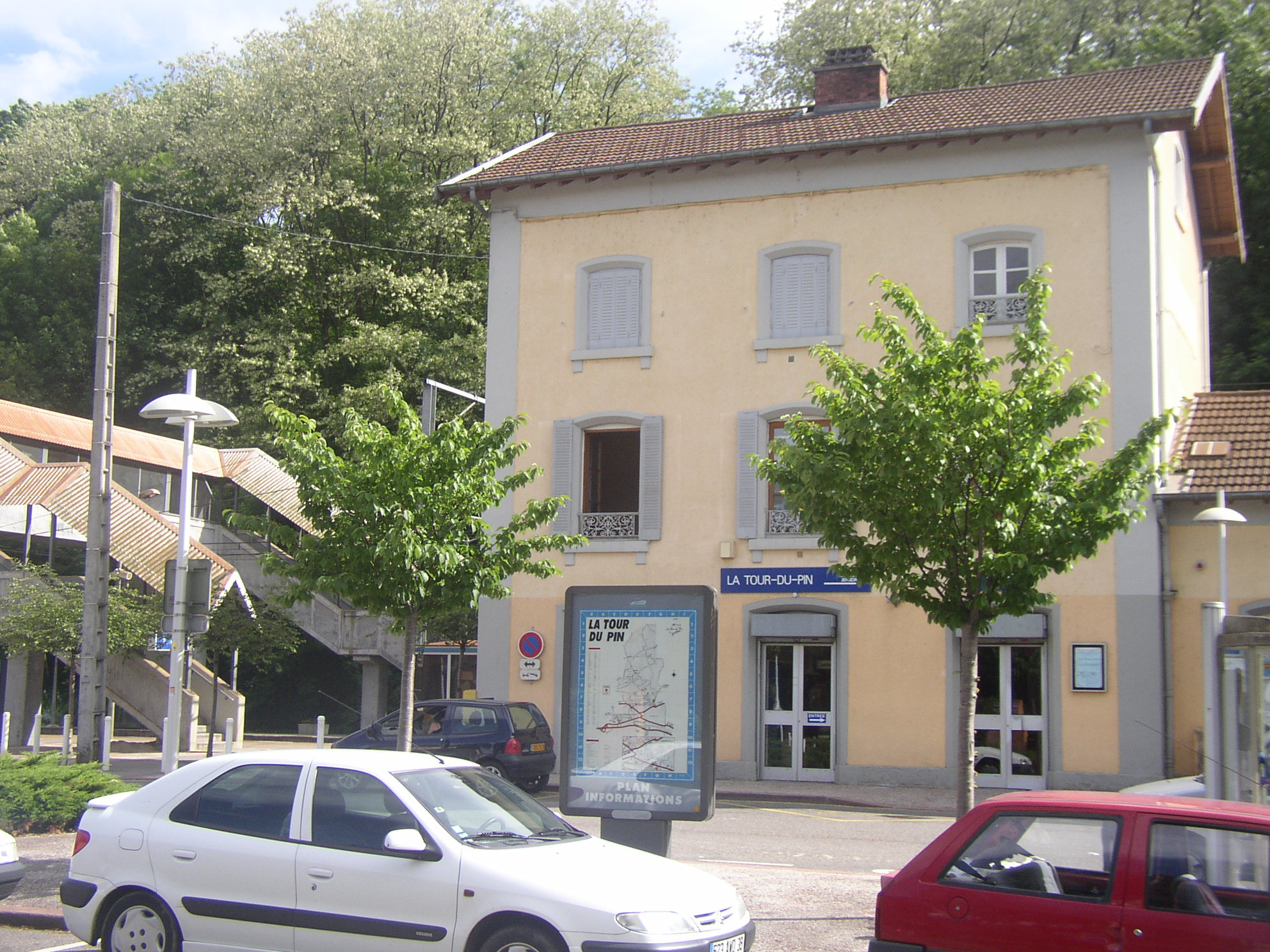 Small building of La Tour du Pin railway station, in Isère, France.